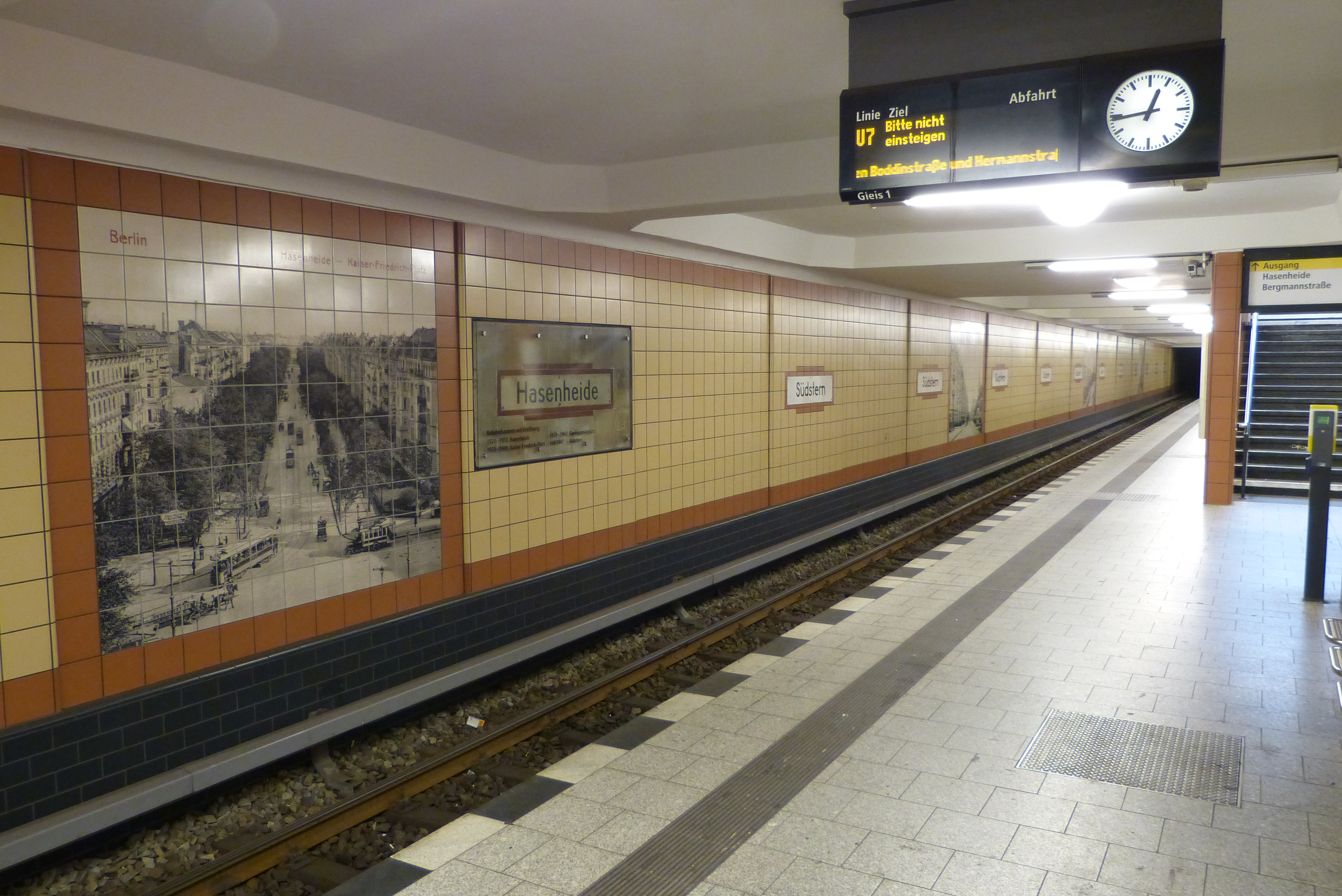 Subway Südstern U7; Bahnsteig mit dynamischem Fahrtendisplay